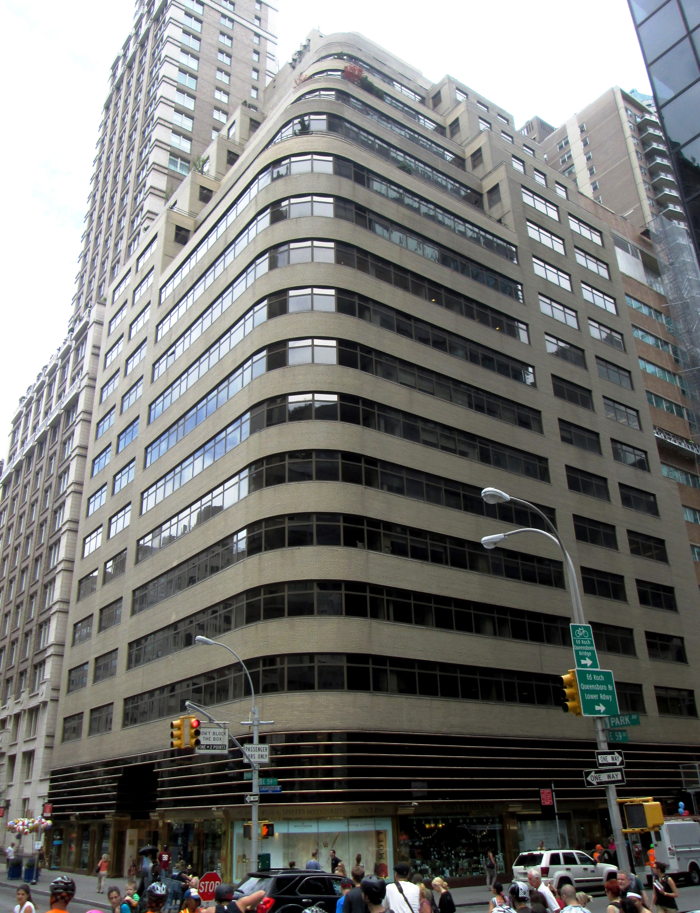 The Aramco Building at 505 Park Avenue on the corner of East 59th Street in Midtown Manhattan, New York City was built in 1949, and was recently renovated by Der Scutt. (Sources: Emporis and Der Scutt Architect)